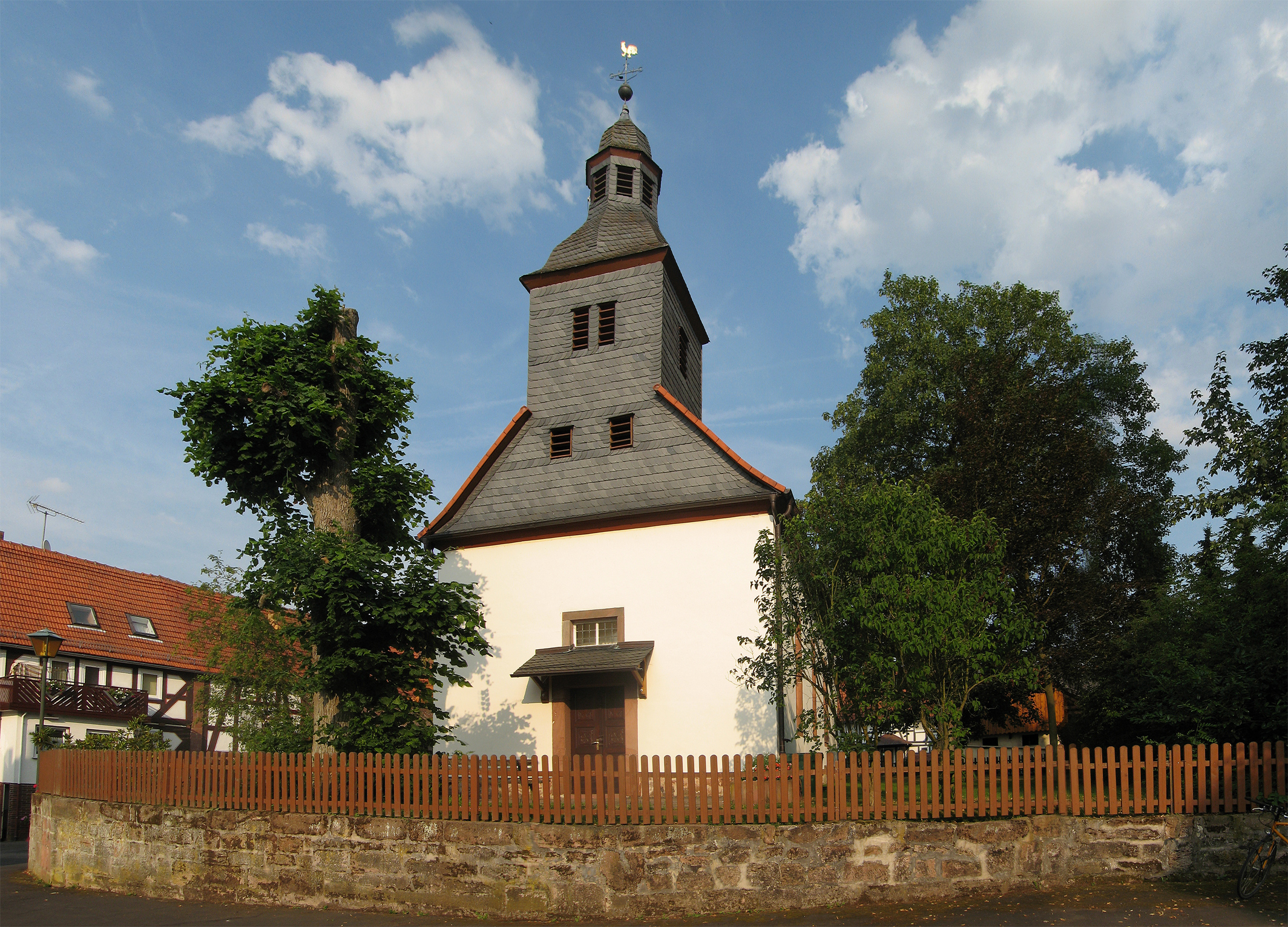 The church of Hatzbach a village in the area of Stadallendorf